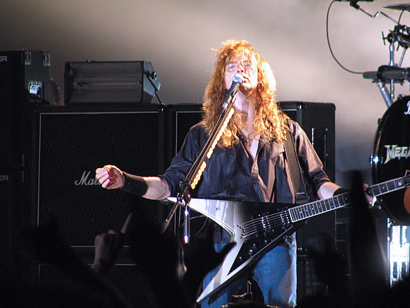 Megadeth live in Bucharest, June 15th, 2005